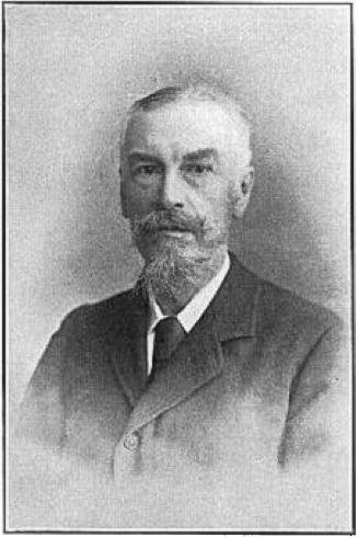 English ornithologist Philip Lutley Sclater, in a 1905 issue of The Condor. The portrait itself is from 1896 or earlier, as it appears on the frontispiece of The published writings of Philip Lutley Sclater, 1844-1896.